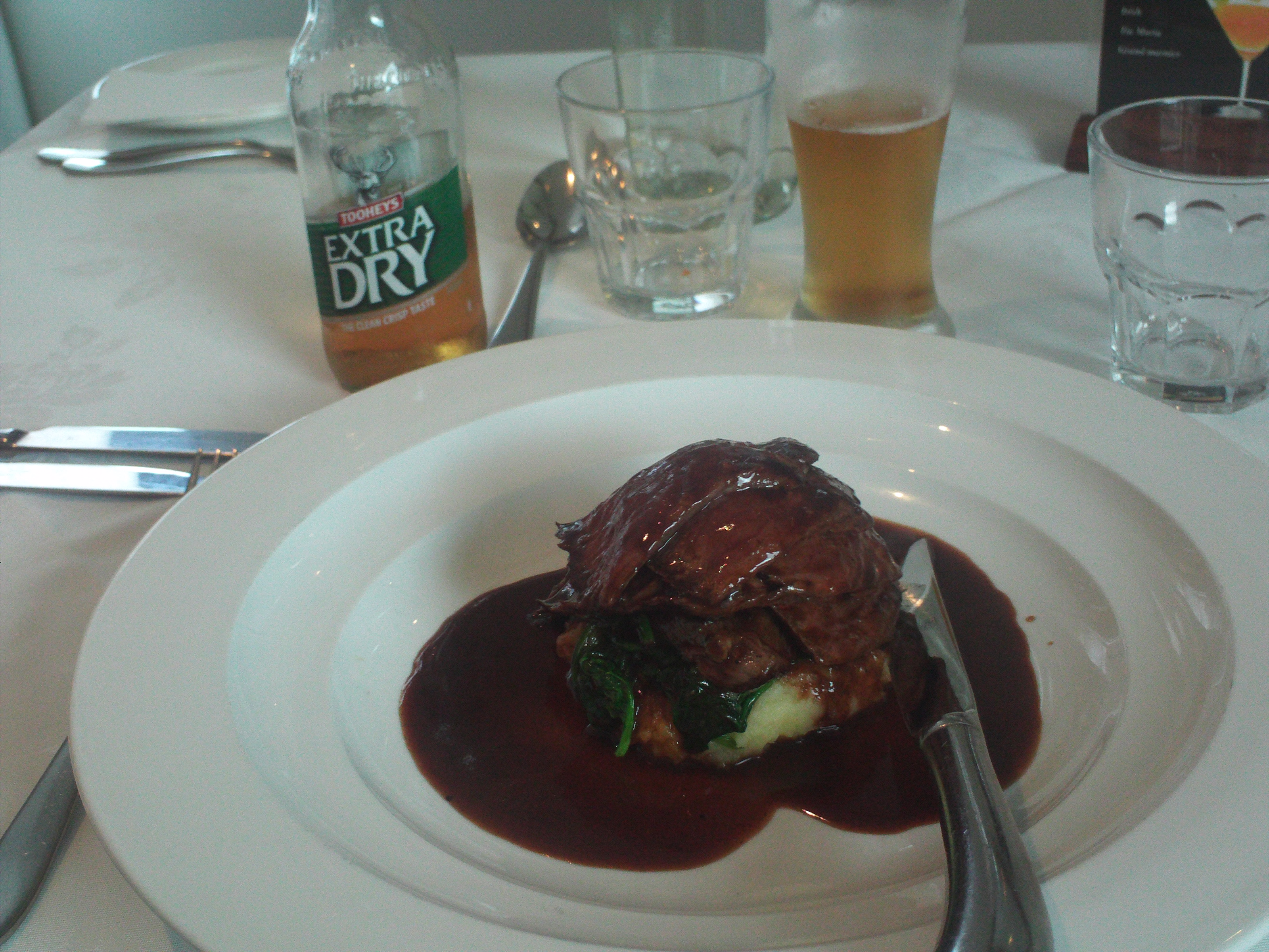 Kangaroo fillet at Little Snail restaurant in Pyrmont, Sydney.